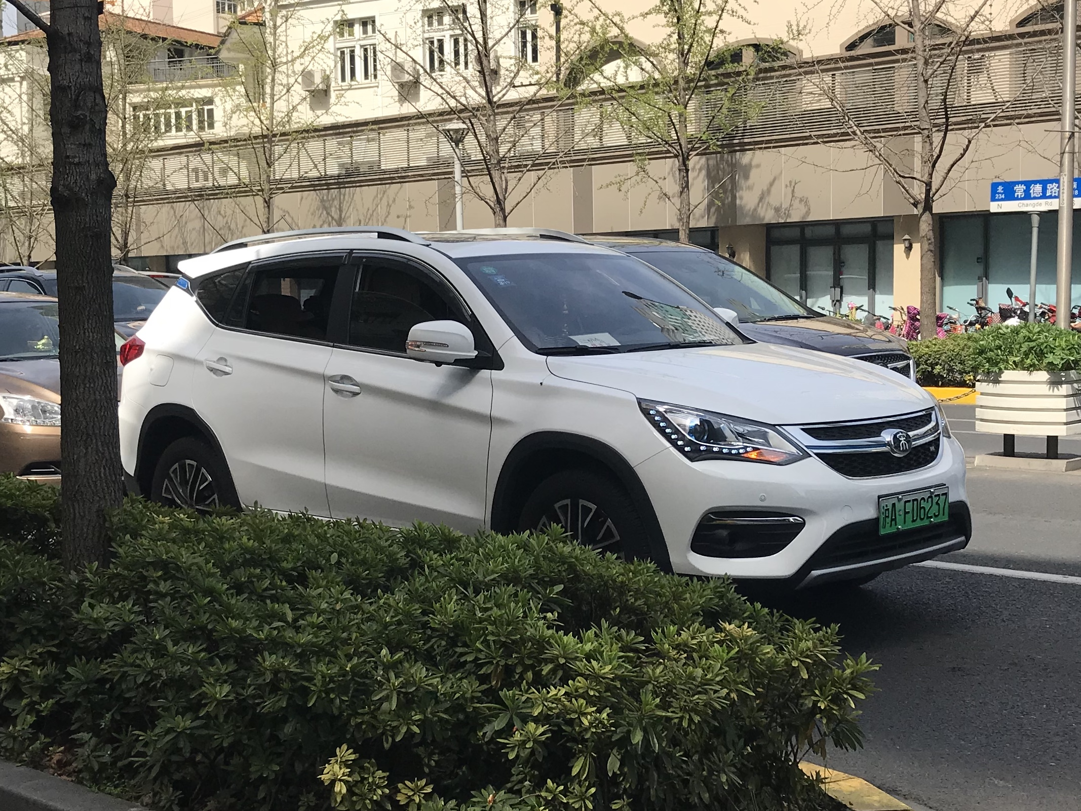 BYD Song DM